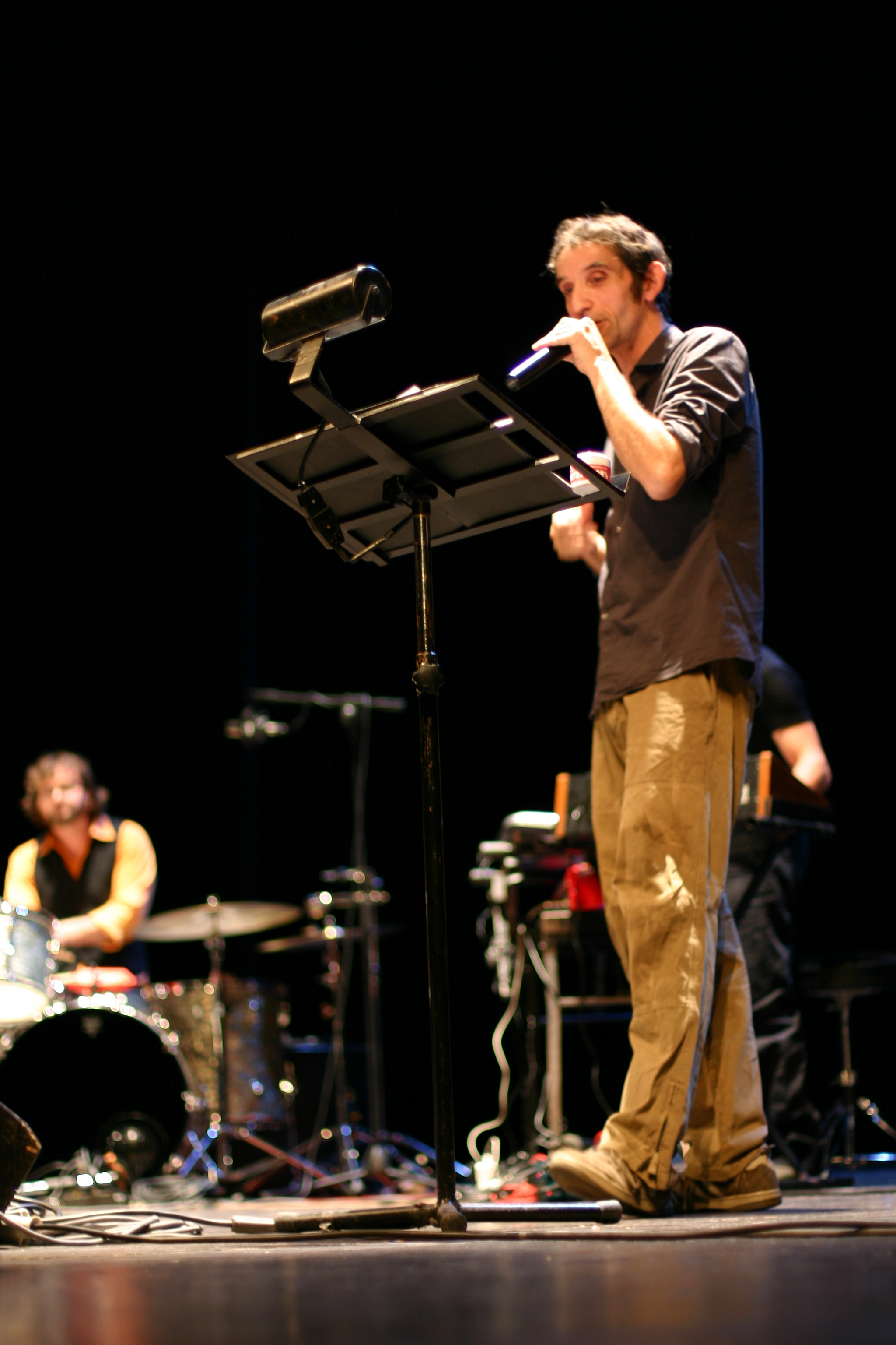 Gipi legge il suo libro "La mia vita disegnata male" al Festival "Internazionale a Ferrara".